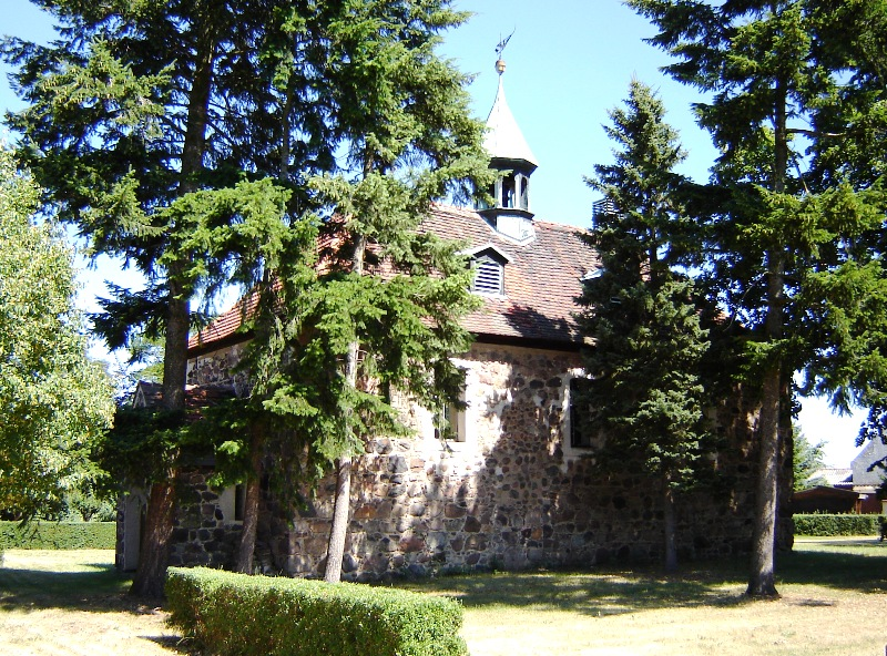 Church in Schweinitz (Saxony-Anhalt)